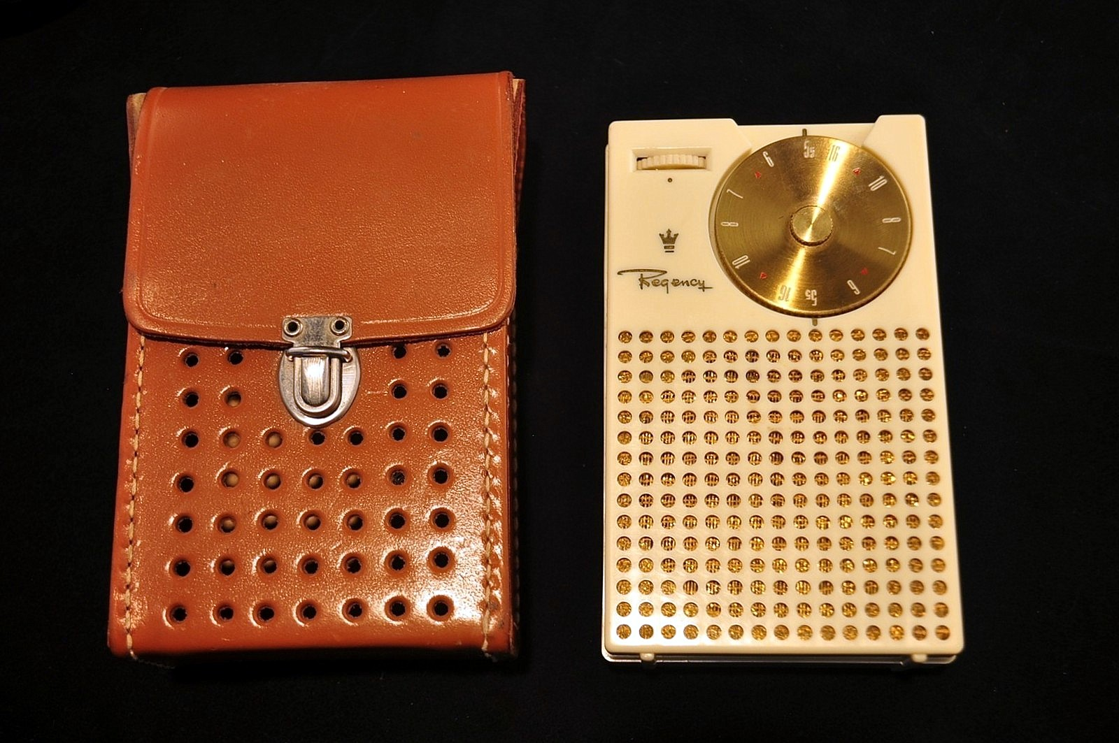 Vintage Regency TR-1 Transistor Radio, Made in the USA